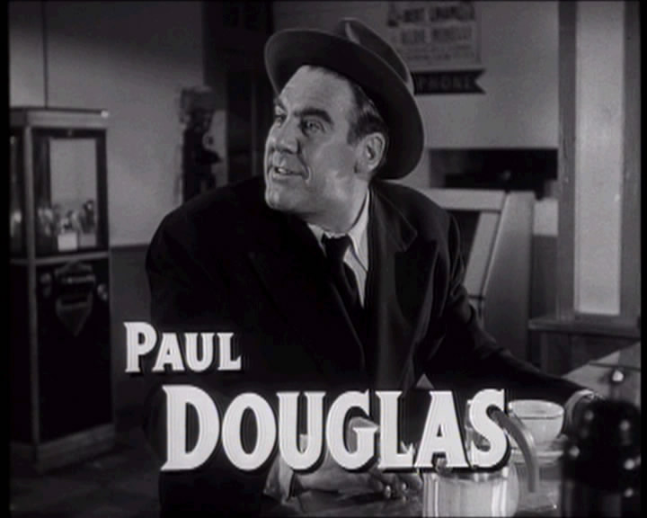 Panic in the Streets is a black and white, 96-minute film directed by Elia Kazan and released in 1950 by 20th Century Fox. It is film noir semidocumentary shot exclusively on location in New Orleans, Louisiana.